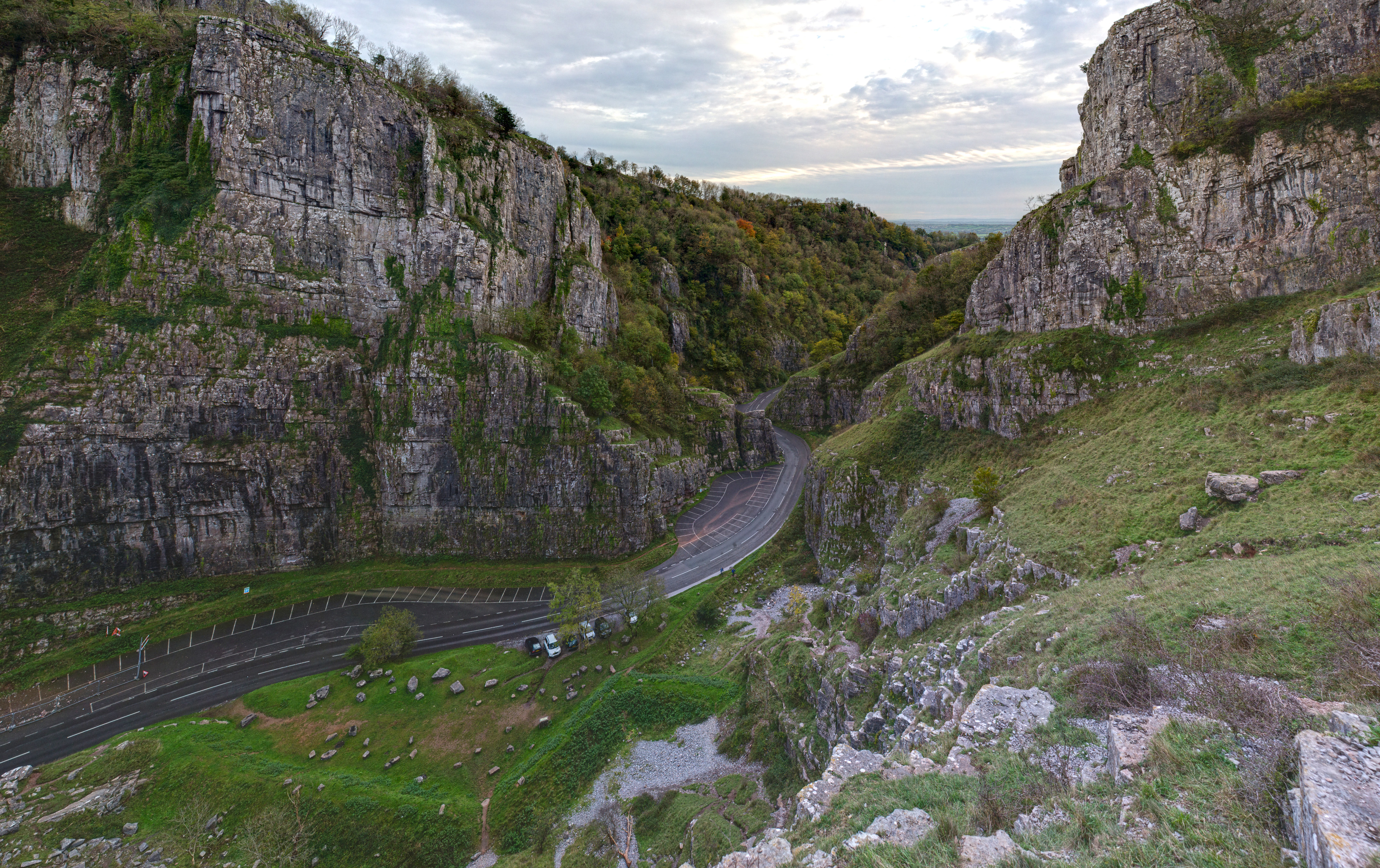 A panoramic view of Cheddar Gorge in Somerset, UK.